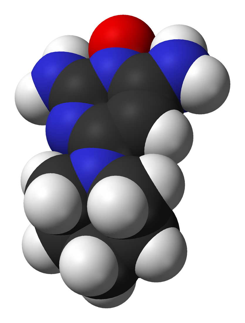 Space-filling model of the minoxidil molecule, C9H15N5O. Structural data from Hiroyuki Akama, Masayuki Haramura, Akito Tanaka, Toshio Akimoto, Noriaki Hirayama (2004). "Crystal Structure of Minoxidil". Analytical Sciences 20: x29-x30. Image generated in Accelrys DS Visualizer.